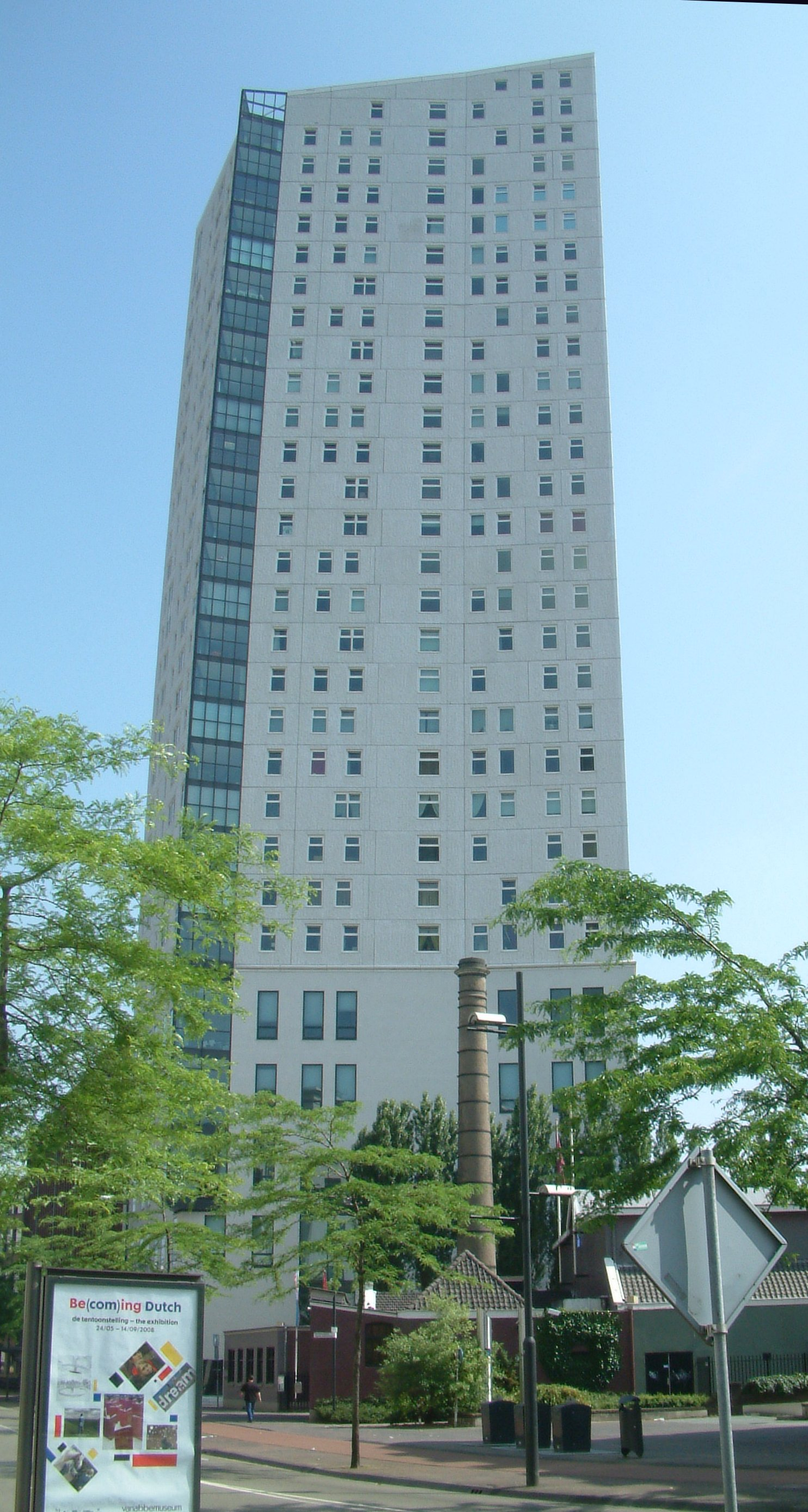 The first Philips' factory in Eindhoven. Next to the skyscraper "de Admirant"